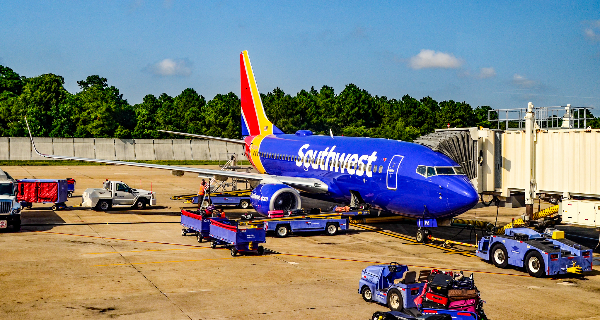 Norfolk International Airport (IATA: ORF, ICAO: KORF, FAA LID: ORF) Photo: TDelCoro July 12, 2018